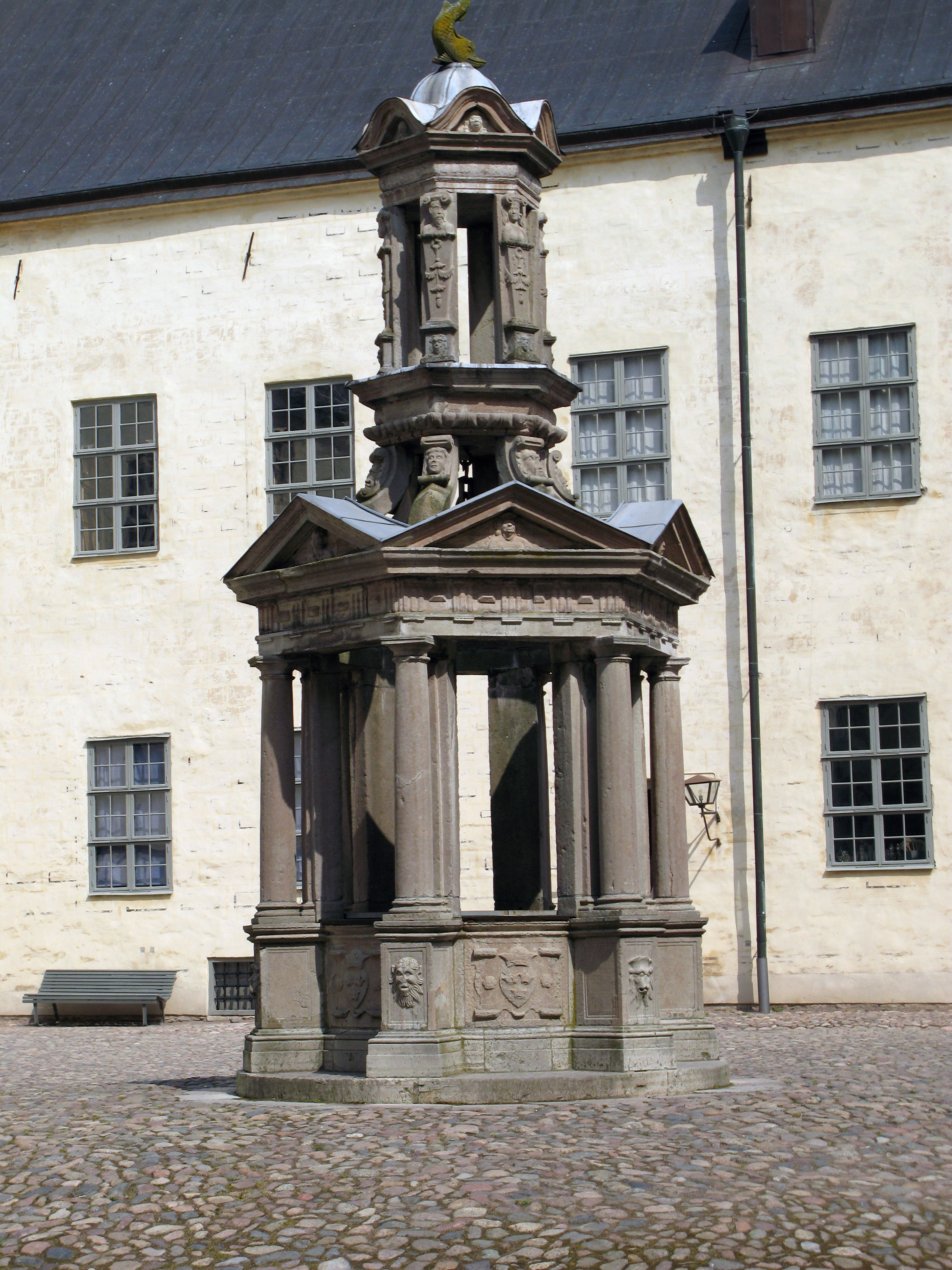 The Royal Castle of Kalmar